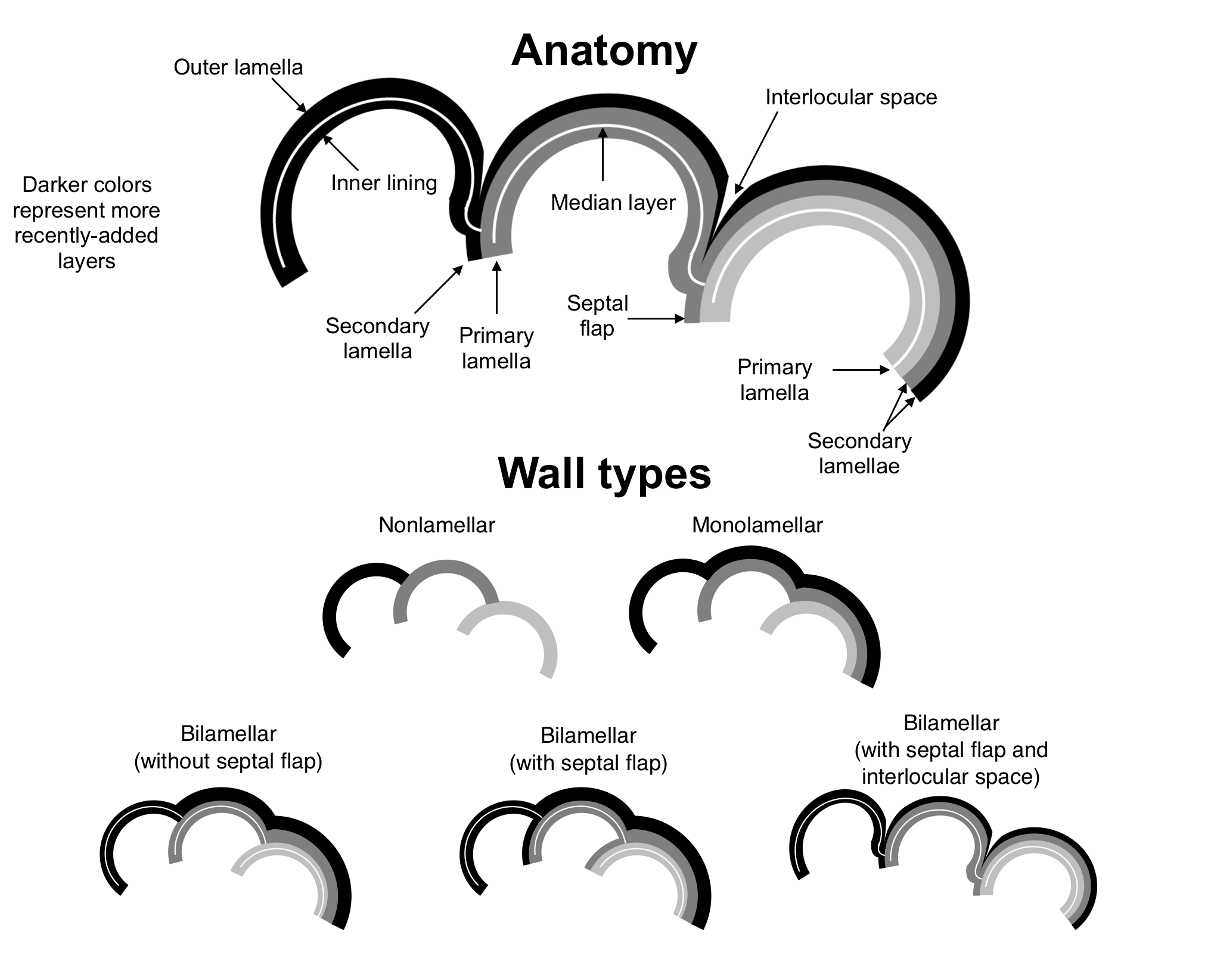 Different types of test walls among foraminifera with secreted tests. Top image is a key to generalised anatomy of test walls. Primary lamella = first layer deposited in any given chamber; secondary lamella = any further layer deposited on top of the primary lamella; outer lamella = outer secreted layer in forams with bilamellar walls; inner lining = inner secreted layer in forams with bilamellar walls; median layer = nonmineralised organic layer separating outer lamella from inner lining in forams with bilamellar walls; septal flap = mineralised layer deposited over earlier septum as a secondary lamella, present only in some bilamellar species; interlocular space = chasm between chambers, sometimes present in bilamellar species with septal flaps. Interlocular space may be "capped" by mineralised layer (not shown). Darker colours represent more recently-deposited layers. Bottom images are different types of wall types found in foraminiferal groups. Nonlamellar walls are found in Carterinida and Miliolida; Monolamellar walls are found in Lagenida; Bilamellar walls are found in Rotaliida (including Globigerinina, the planktonic subclade).